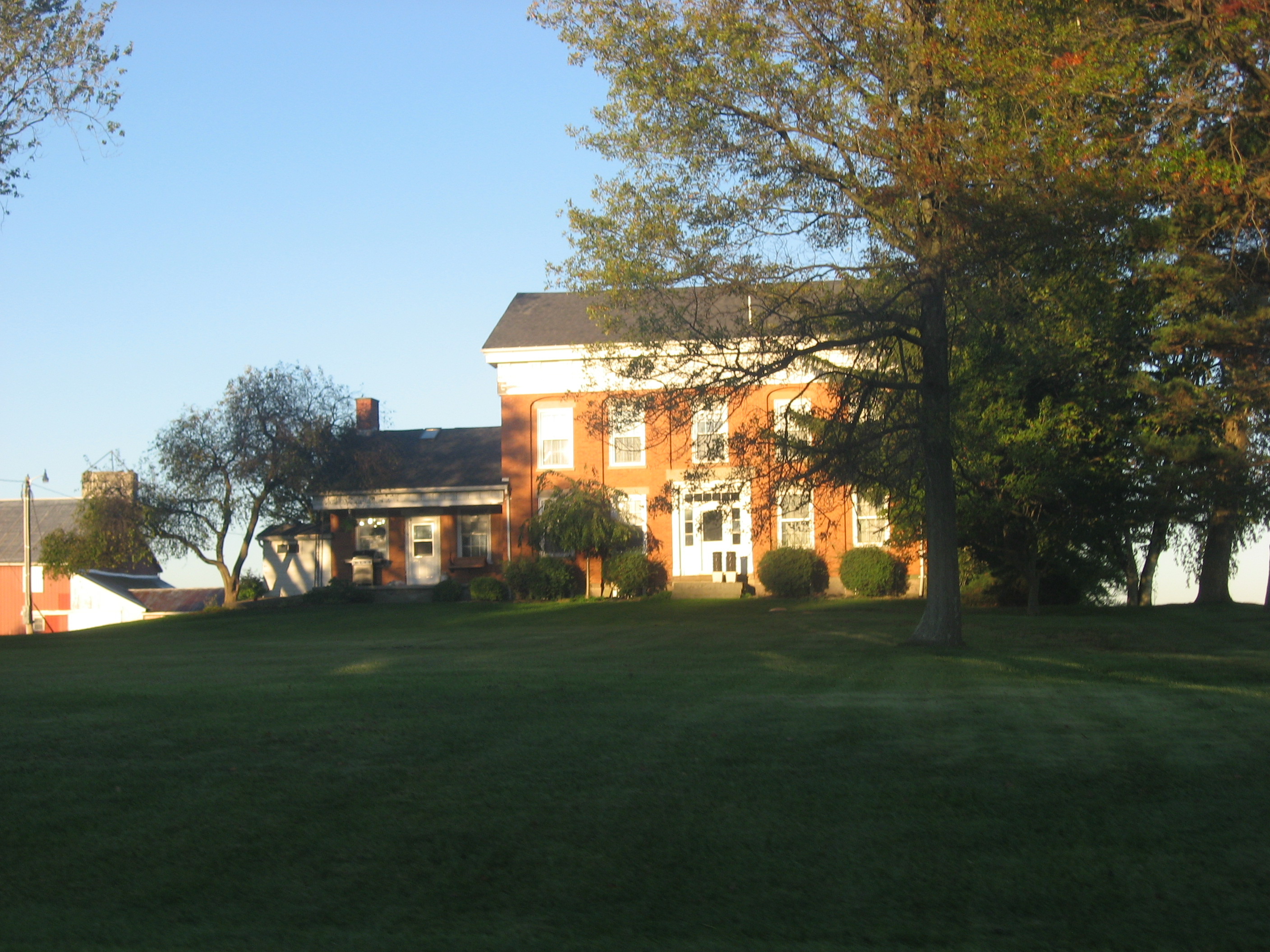 Front of the Mead-Zimmerman House, located at 4511 State Route 13 east of Greenwich in Greenwich Township, Huron County, Ohio, United States. Built in 1848, it is listed on the National Register of Historic Places.